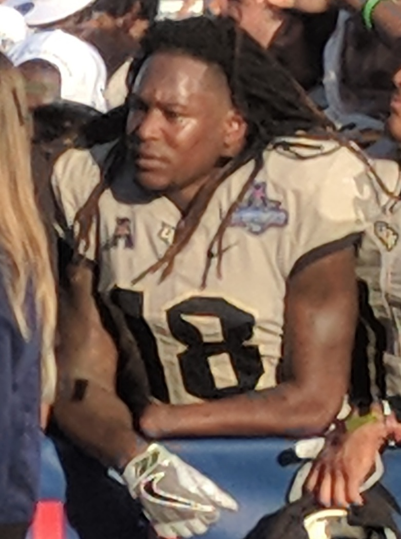 UCF beat Memphis 62-55 in double overtime to claim the American Athletic Conference Championship and a 12-0 record for the season